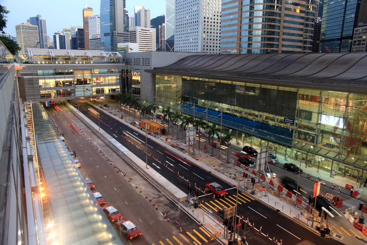 MTR Hong Kong station and IFC Mall exteriors